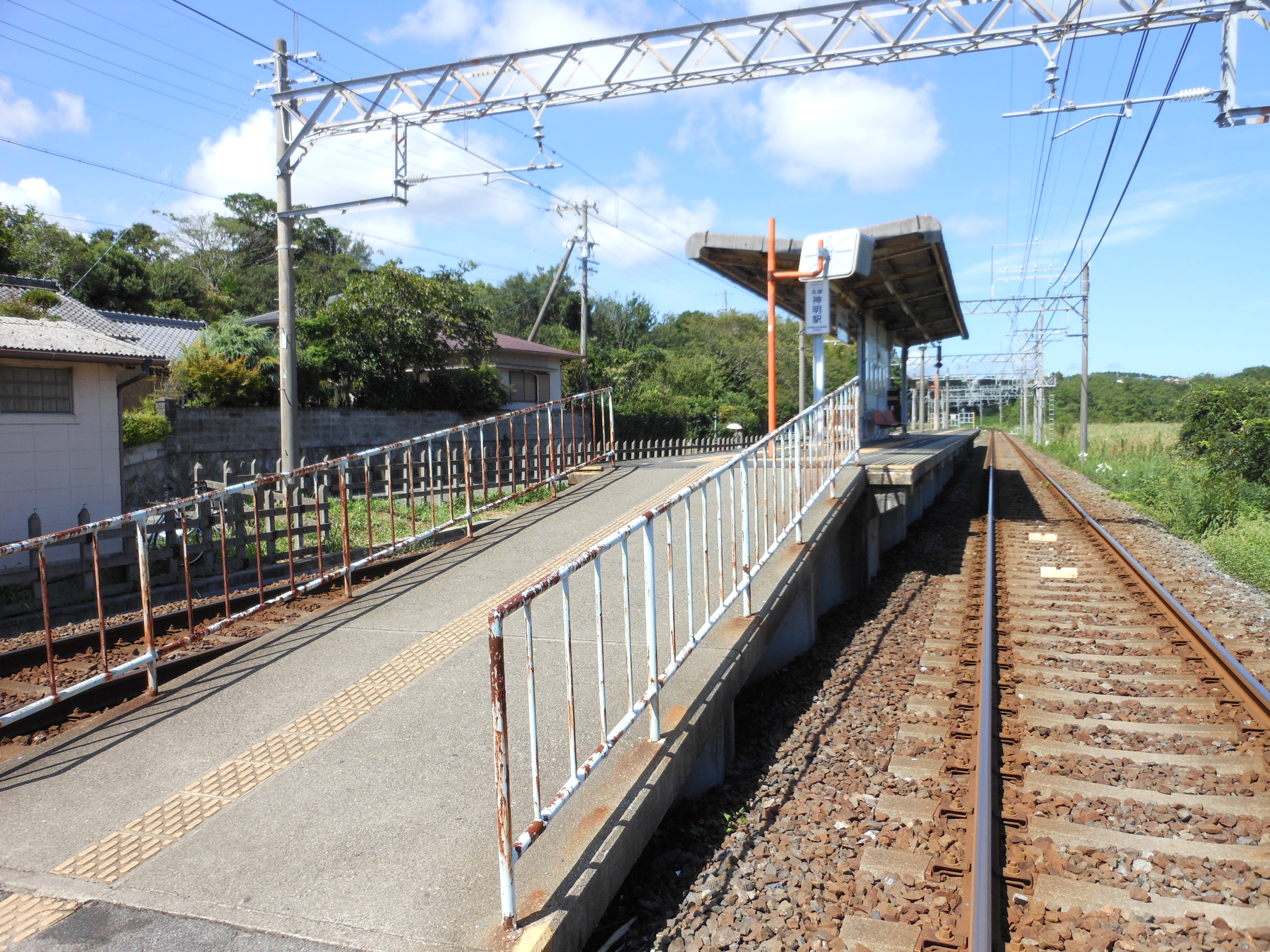 This is Shima-Shimmei station in Shima, Mie, Japan.